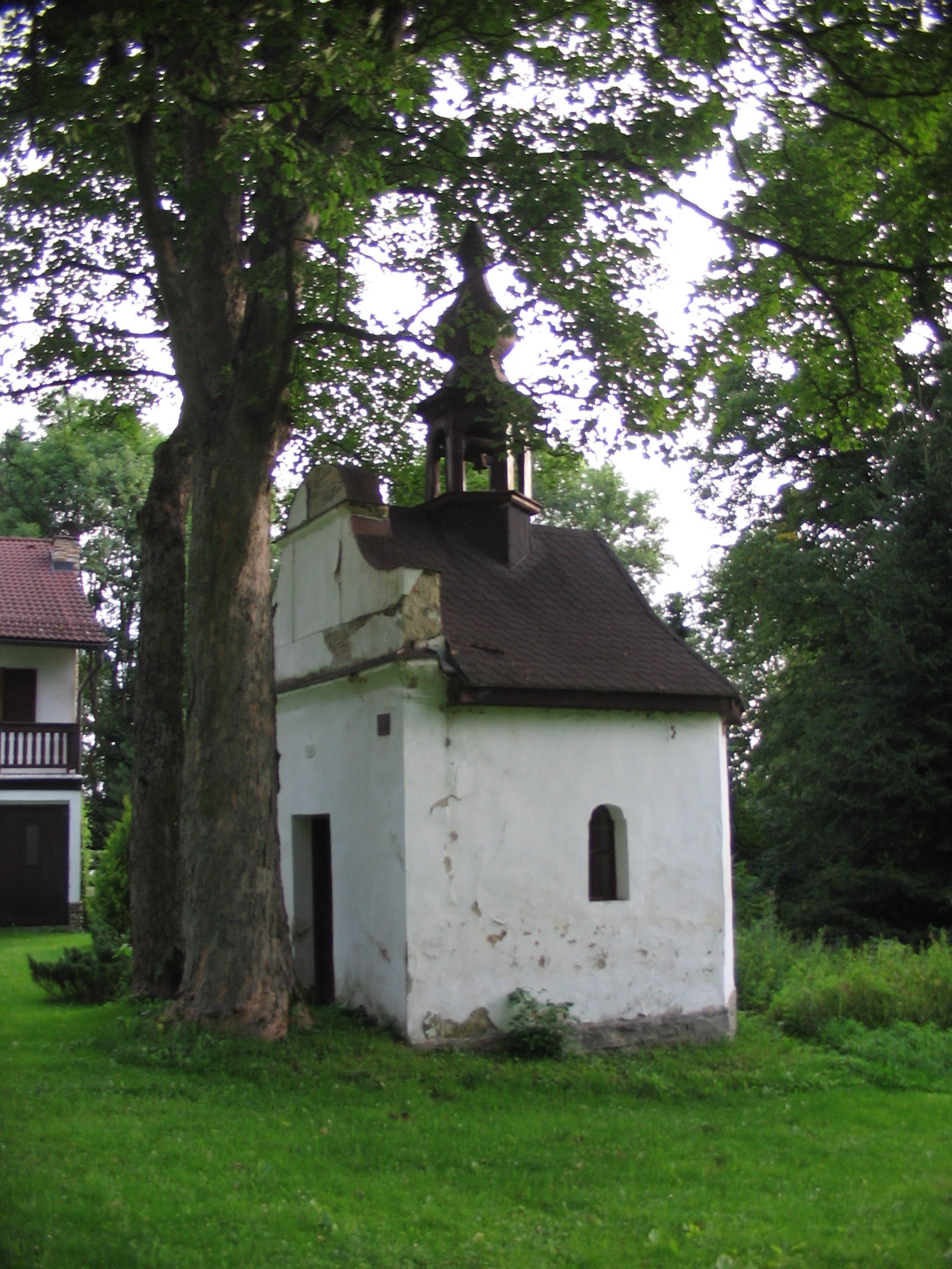 Chapel in Žlíbek, Klatovy District, Czech Republic